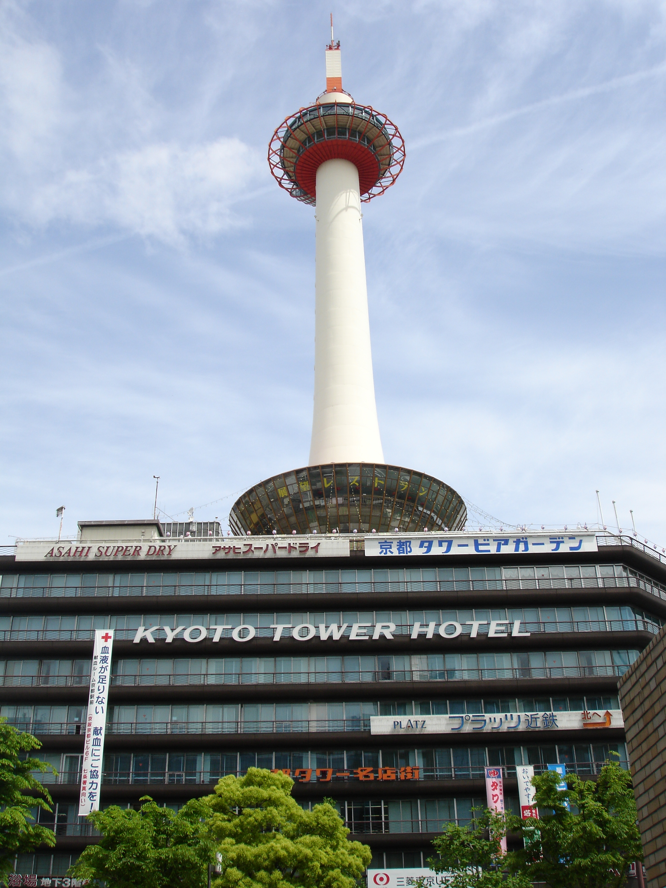 Kyoto Tower and Hotel with blue daytime sky.